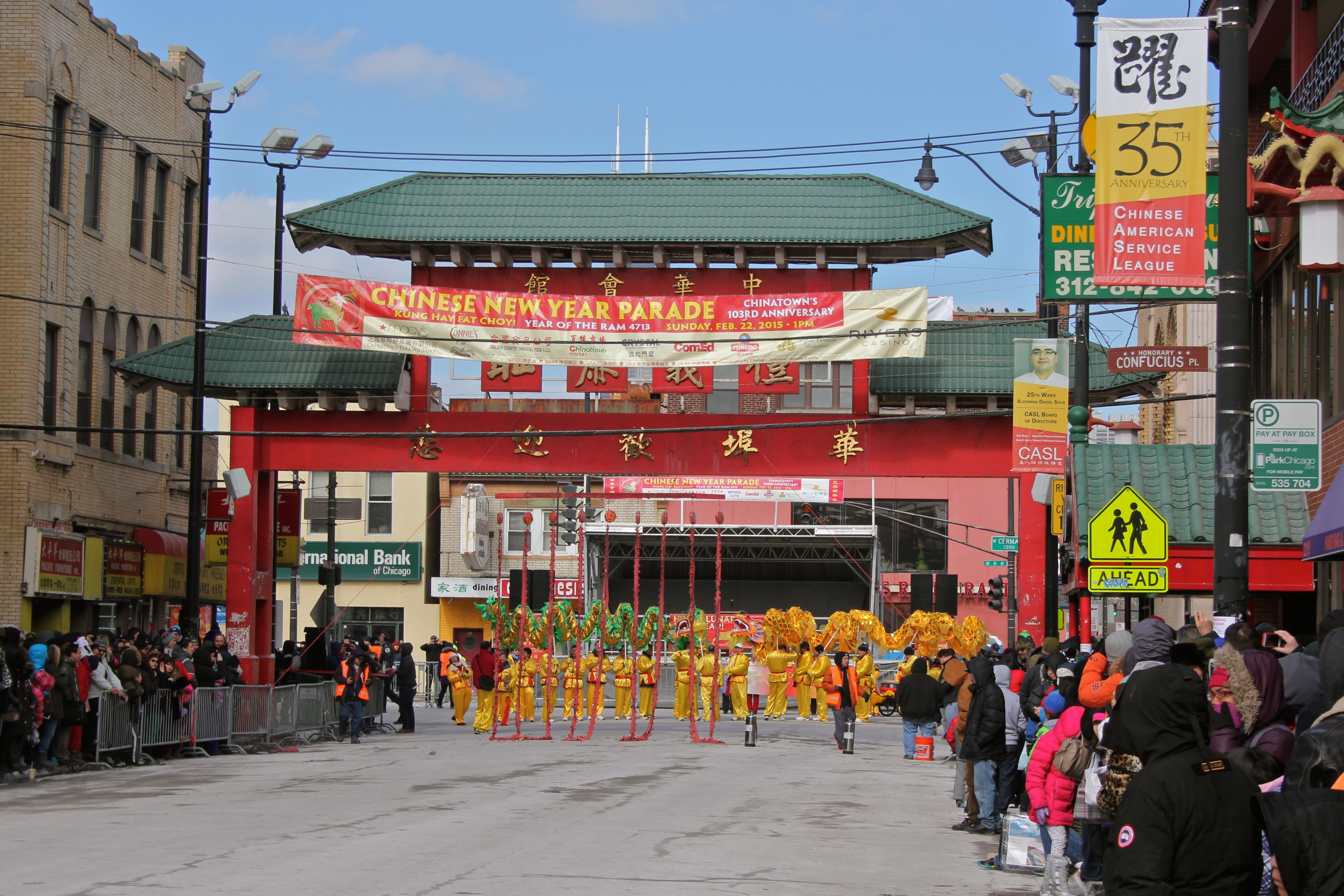 Chinatown Gate